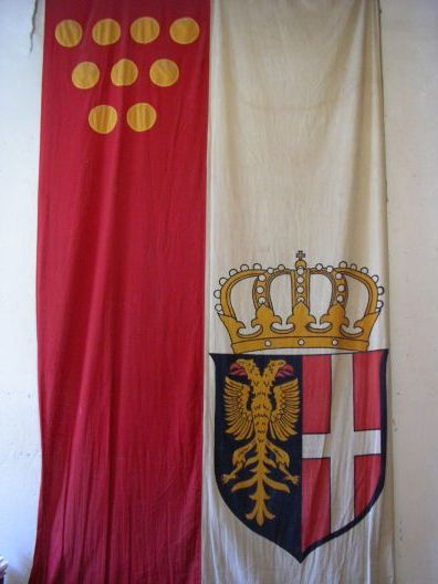 city flag of Neuss, North Rhine-Westphalia